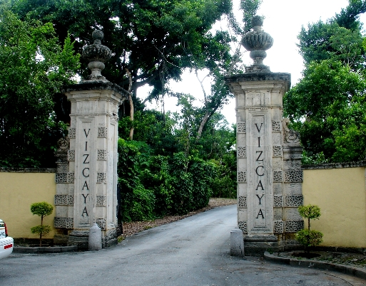 Gateposts and entry to the estate of Villa Vizcaya